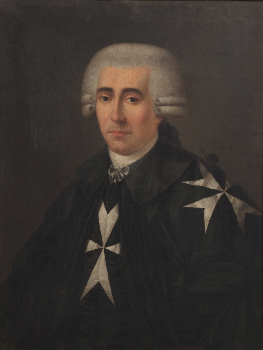 Portrait of Fra' Francisco Ximenes de Texada, 69th Prince and Grand Master of the Order of Malta from 1773 to 1775